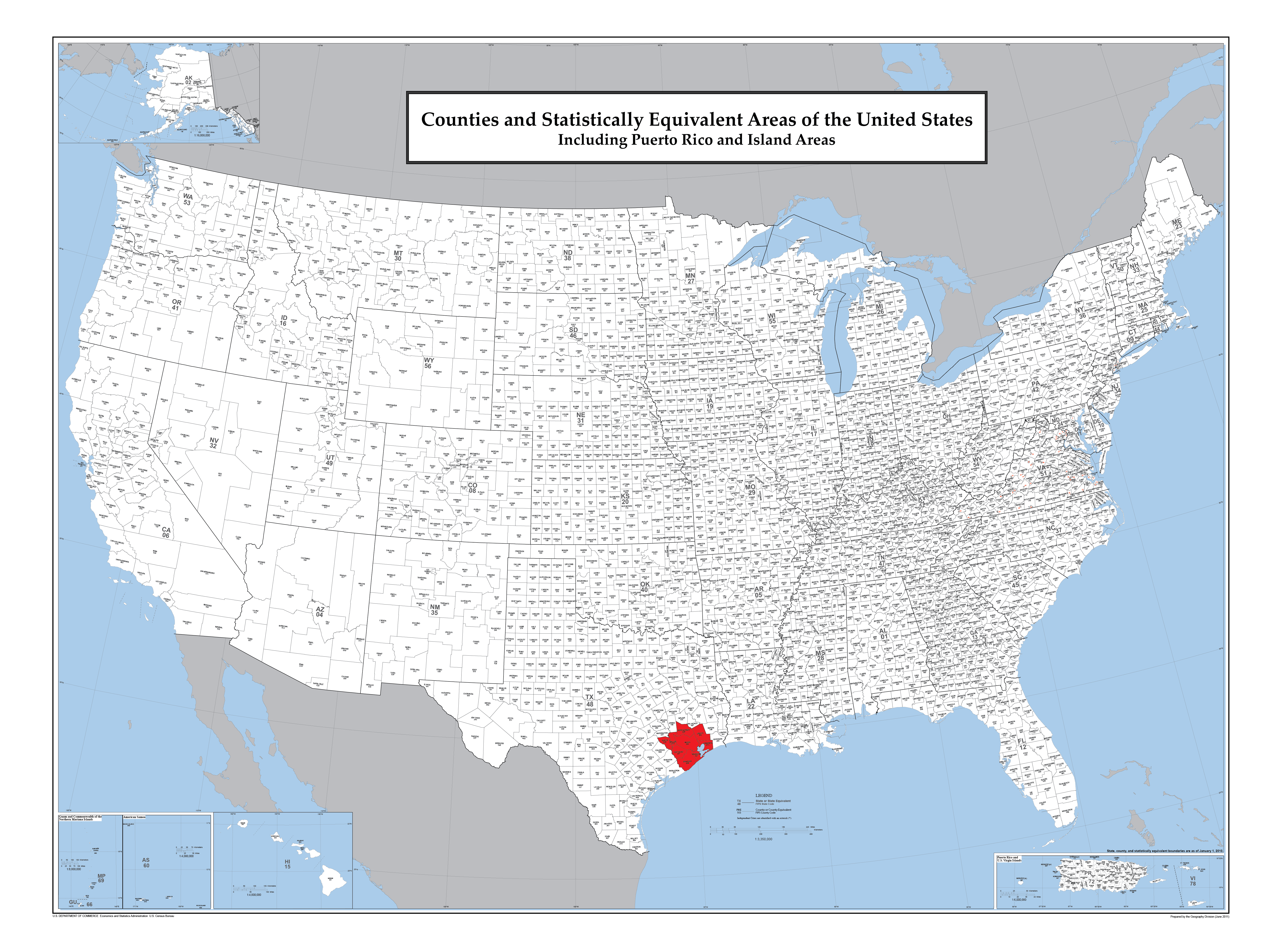 US Counties with the greater Houston area highlighted.